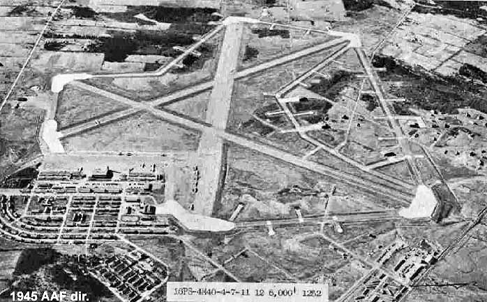 Dow Army Airfield, Maine, 11 July 1944